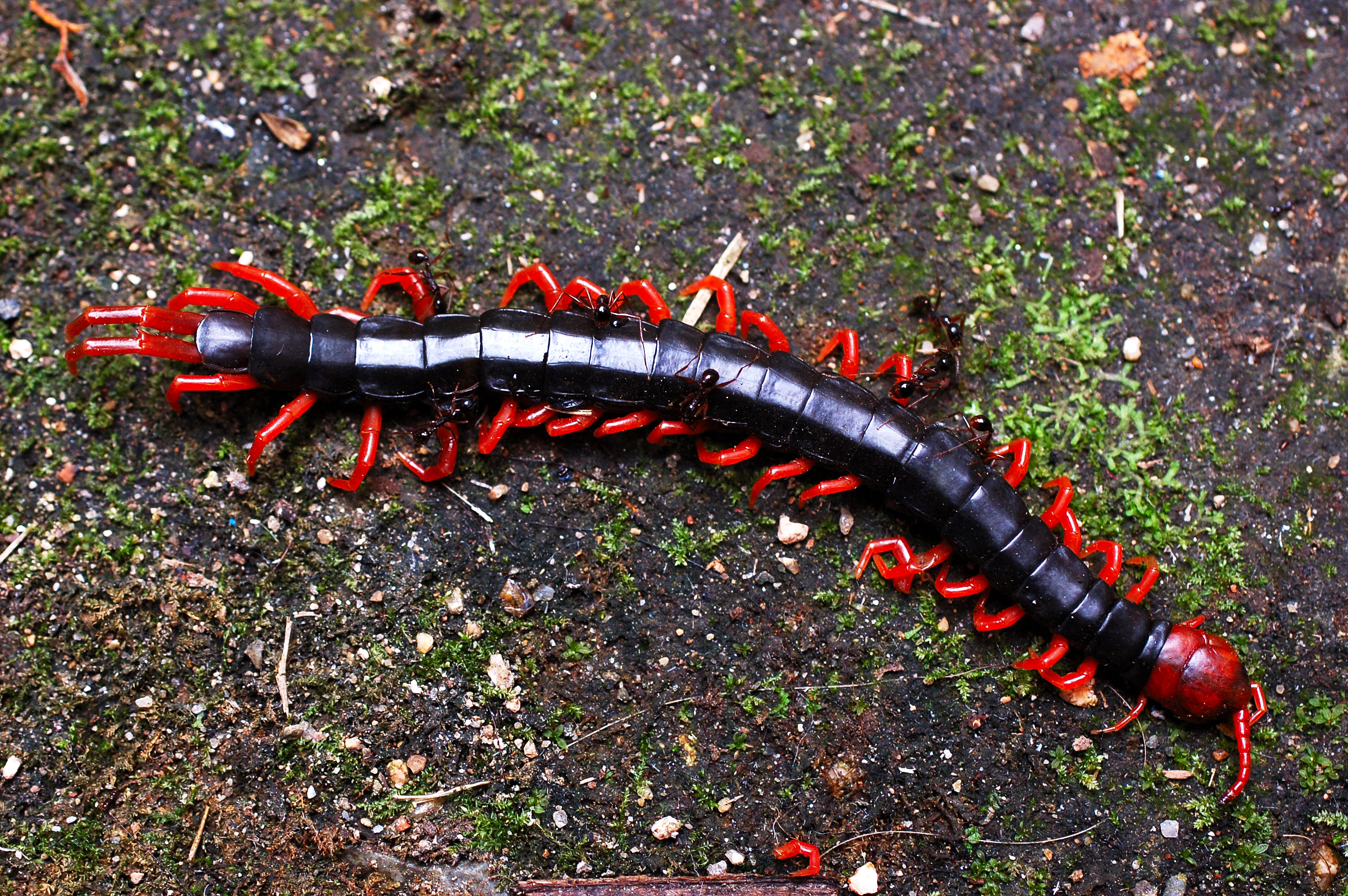 Scolopendra subspinipes japonica and Ants - Oct 7, 2007 at 14:43 JST, Soryo/Hiroshima